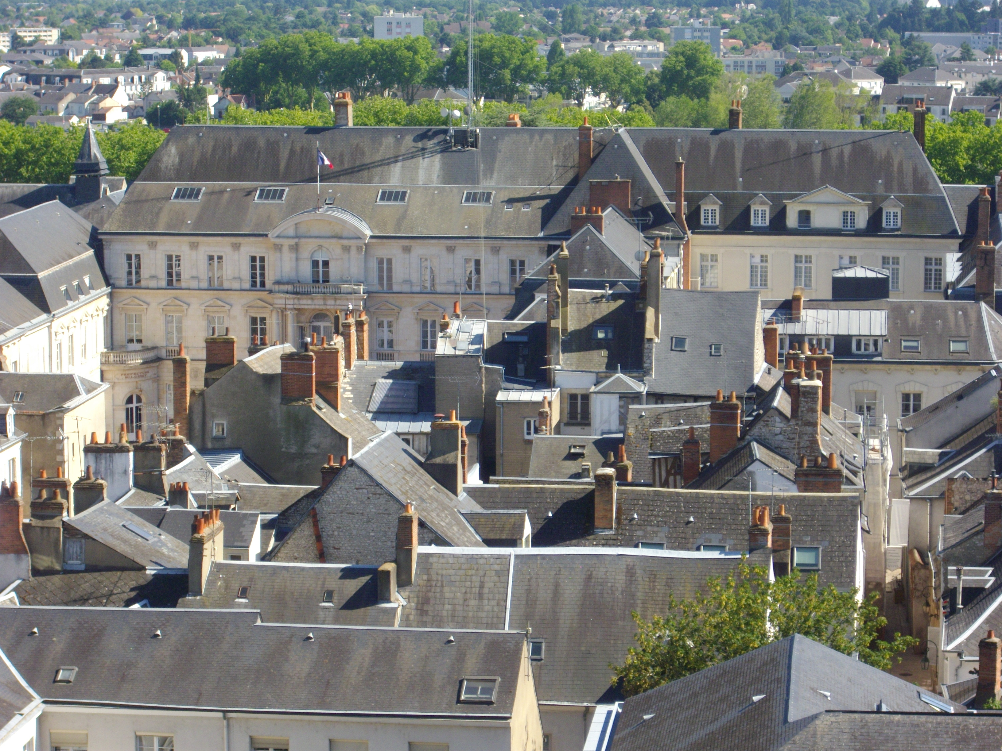 Prefecture of Loiret, Orléans (Loiret, France), seen from the cathedrale's roofs .